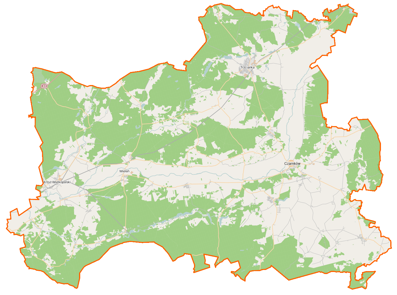 Map of Powiat czarnkowsko-trzcianecki, Poland This map of Powiat czarnkowsko-trzcianecki was created from OpenStreetMap project data, collected by the community. This map may be incomplete, and may contain errors. Don't rely solely on it for navigation. Border coordinates53.136915.8787←↕→16.813252.7176